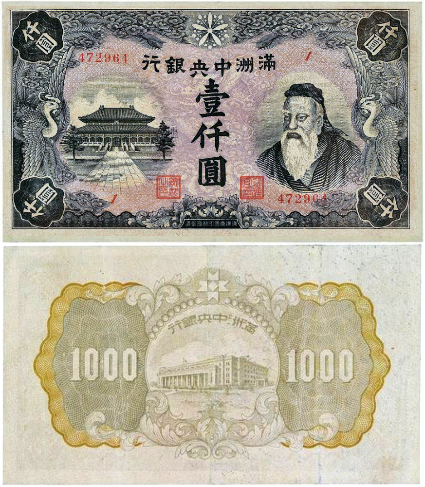 A banknote issued to circulate in Manchukuo, a Japanese puppet state ruled by the aristocracy of the former Qing Dynasty.